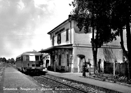 Terranova Monferrato railway station